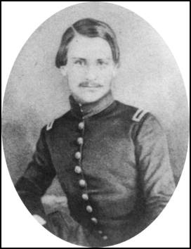 Photo of Cadmus Marcellus Wilcox (1824-1890)